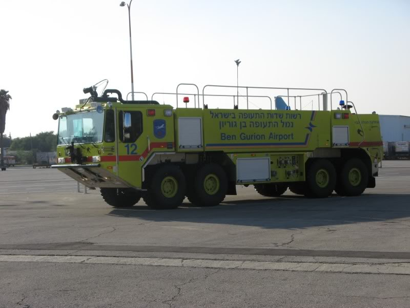 Fire fighting crash truck of the Ben Gurion International Airport